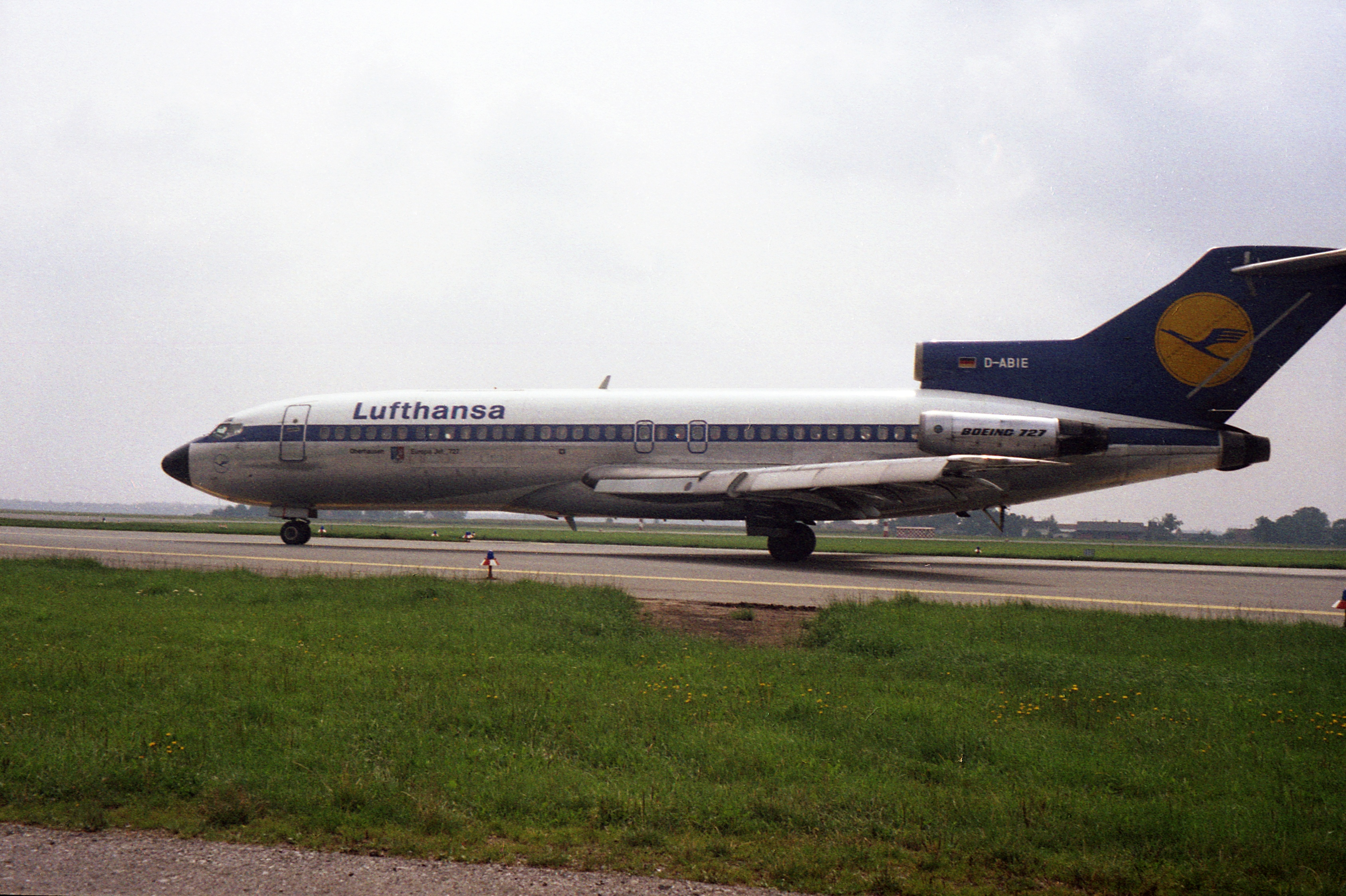 Lufthansa Boeing 727 (D-ABIE, "Oberhausen") at Munich-Riem Airport